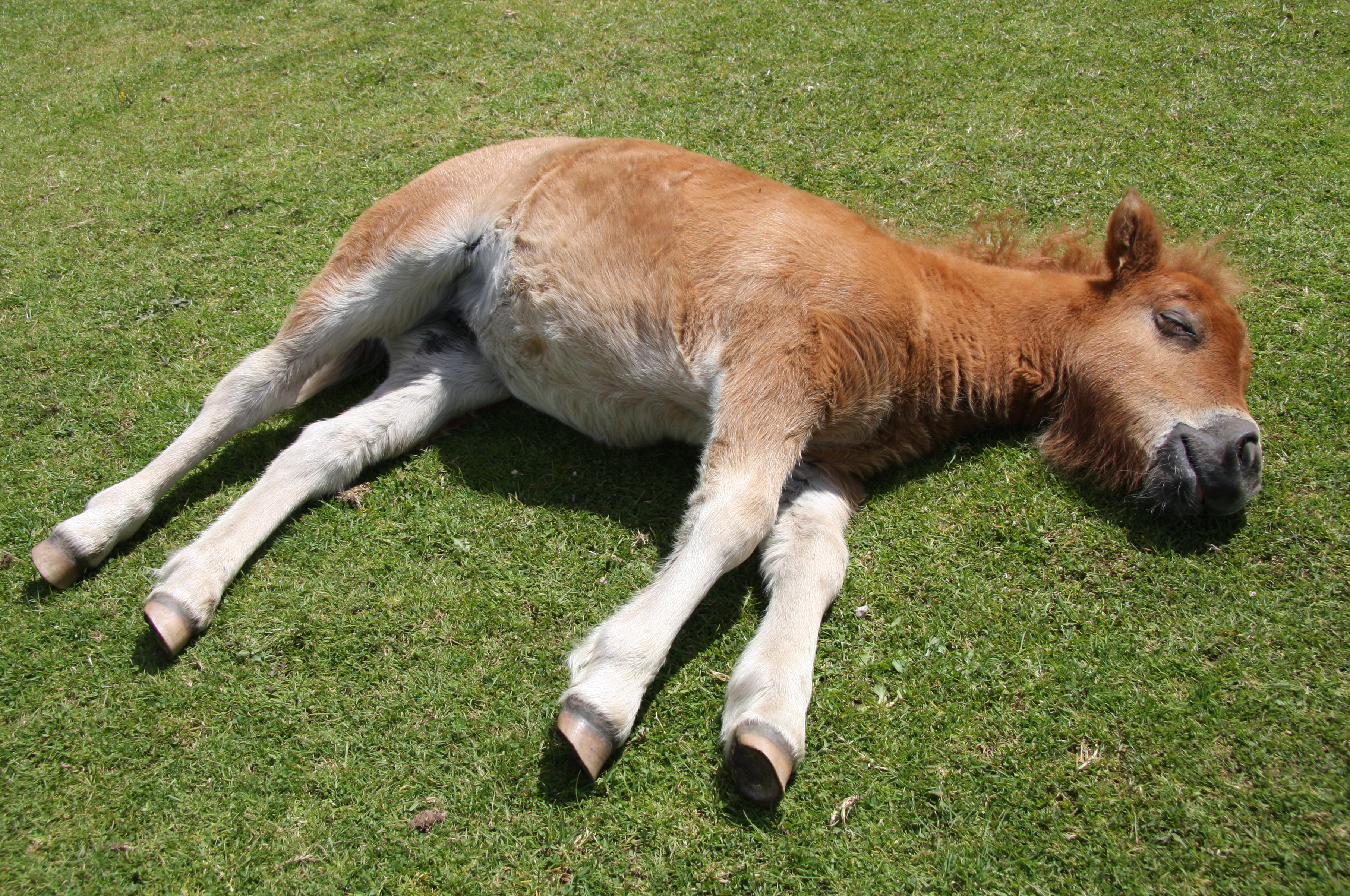 Dartmoor Miniature Pony Centre